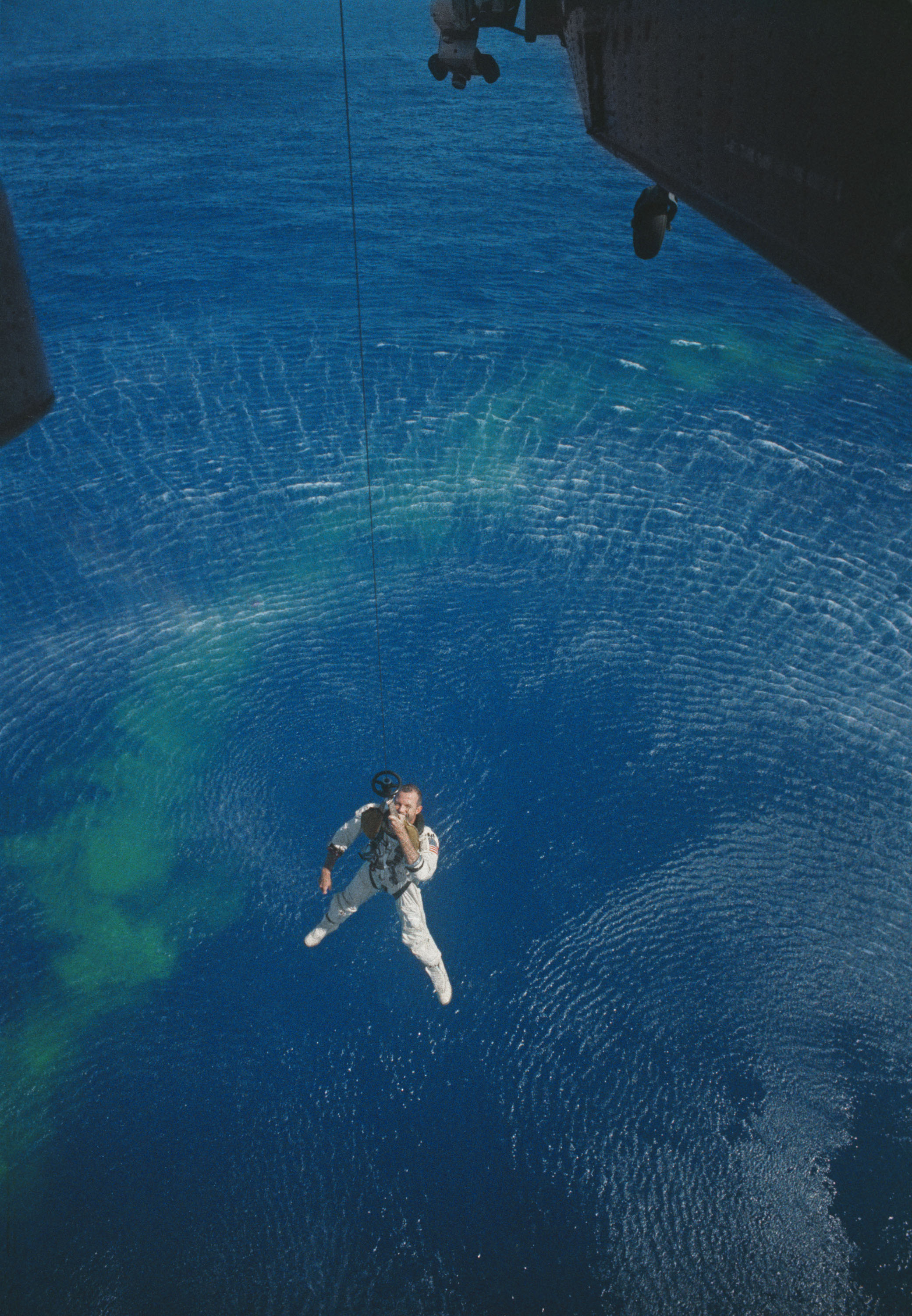 Astronaut L. Gordon Cooper Jr. is hoisted up to a Navy helicopter during recovery operations in the Atlantic Ocean of the Gemini-5 spacecraft. Image ID: S65-46646 The NASA Headquarter alternative photo number is 65-H-688.